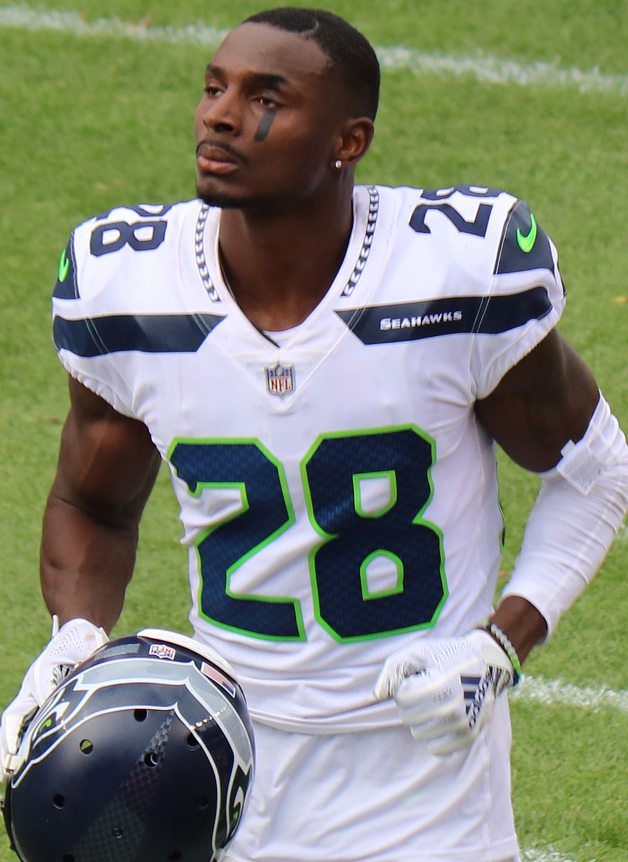 Justin Coleman, a National Football League player.